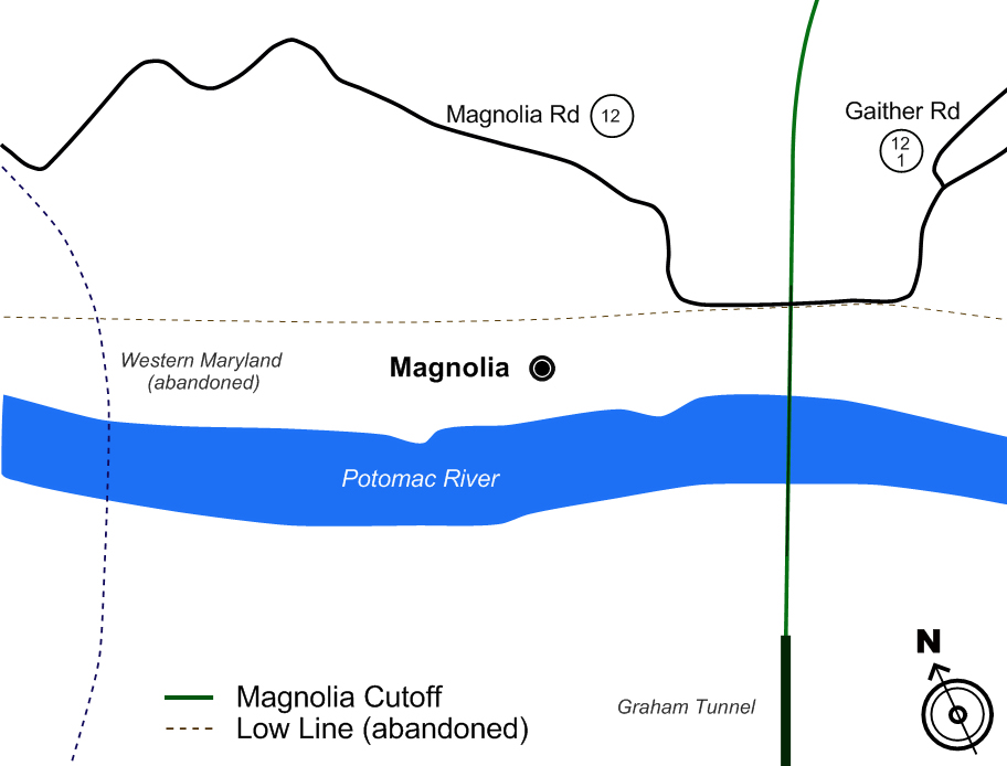 Map of Magnolia, West Virginia area, showing location of the Magnolia Cutoff rail line, part of the Cumberland Subdivision of CSX. The map was created for use in a documentary, "Magnolia Ties."